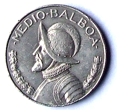 50 cents of balboa